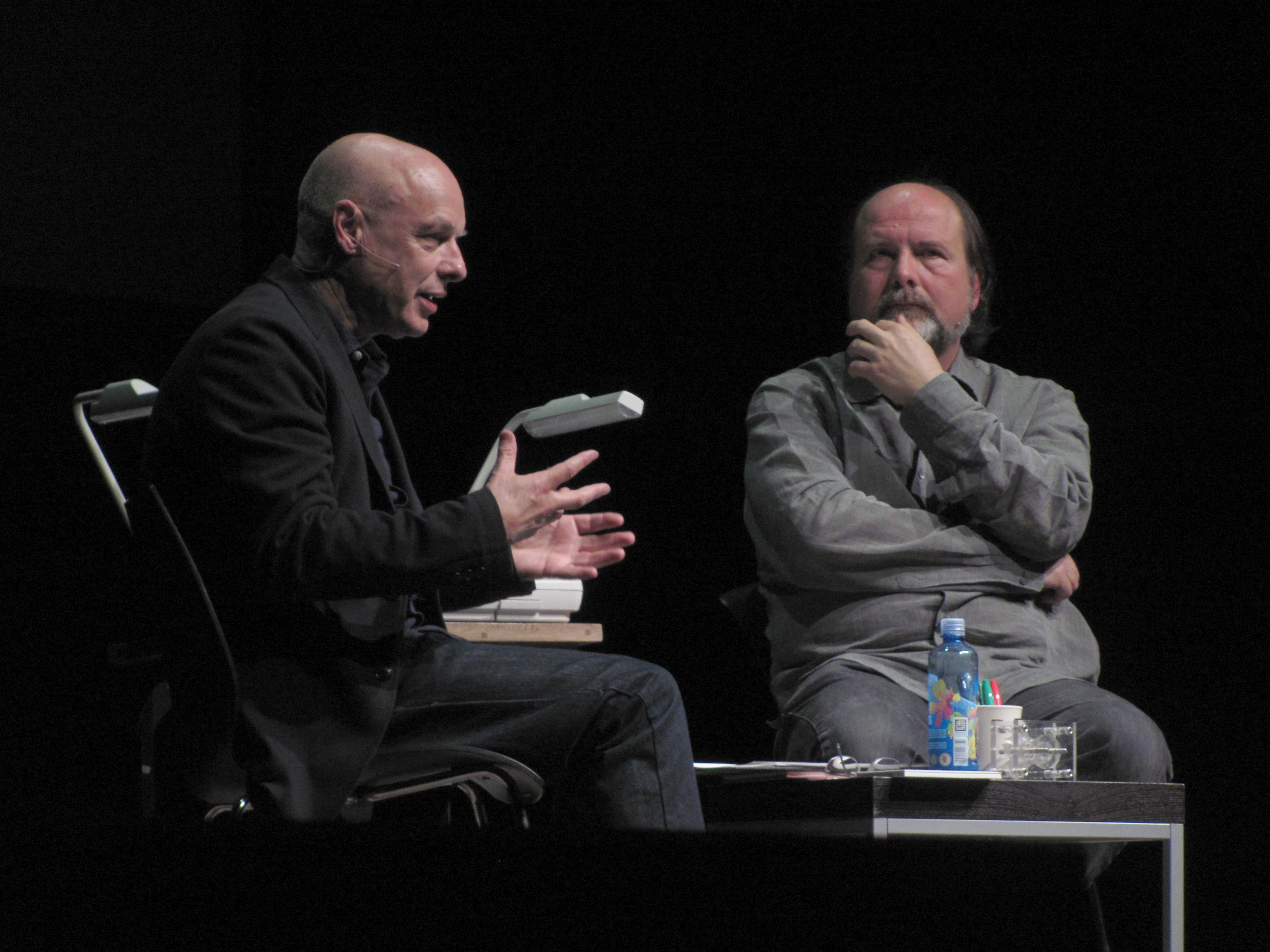 Brian Eno and Danny Hillis speaking at "The Long Now, now" at the Palace of Fine Arts Theater in San Francisco, January 21, 2014.